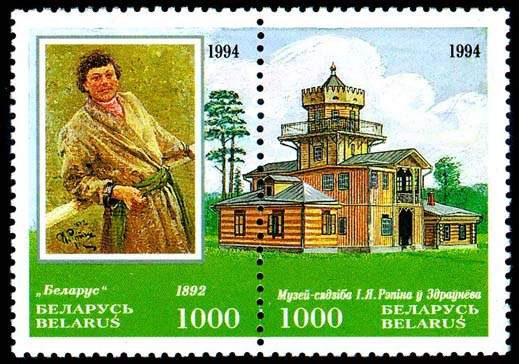 Stamp of Belarus